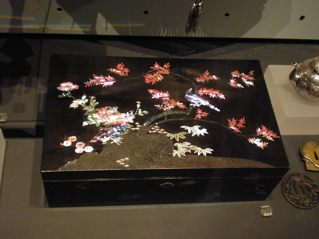 Writing box This box was one of the first Japanese objects bought by the Museum. It was probably imported into Britain from The Netherlands, because before the 1850s the Dutch were the only Europeans who had been granted trading rights by Japan. The objects they brought back were made specifically for the European market. Made in Nagasaki, Japan Wikipedia Loves Art at the Victoria and Albert Museum This photo of item # 51-1852 at the Victoria and Albert Museum was contributed under the team name "va_va_val" as part of the Wikipedia Loves Art project in February 2009. Victoria and Albert Museum The original photograph on Flickr was taken by DJ - Architect—please add a comment to the original Flickr page whenever a use has been made on Wikipedia or another project. Project galleries on Flickr: this institution, this team